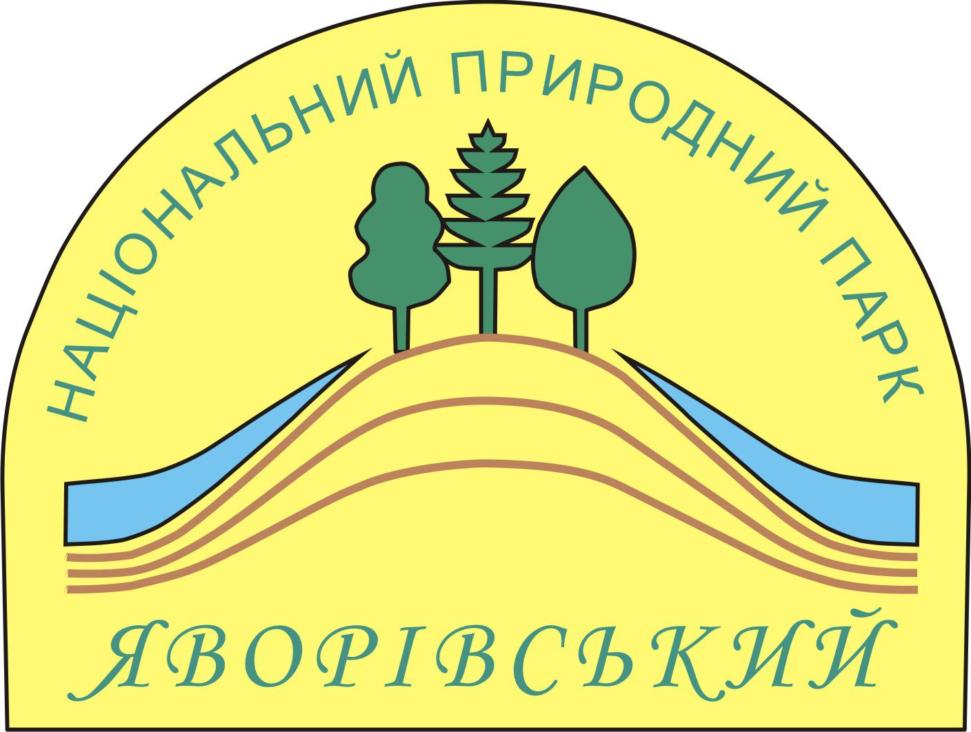 Yavorivskyi National Nature Park